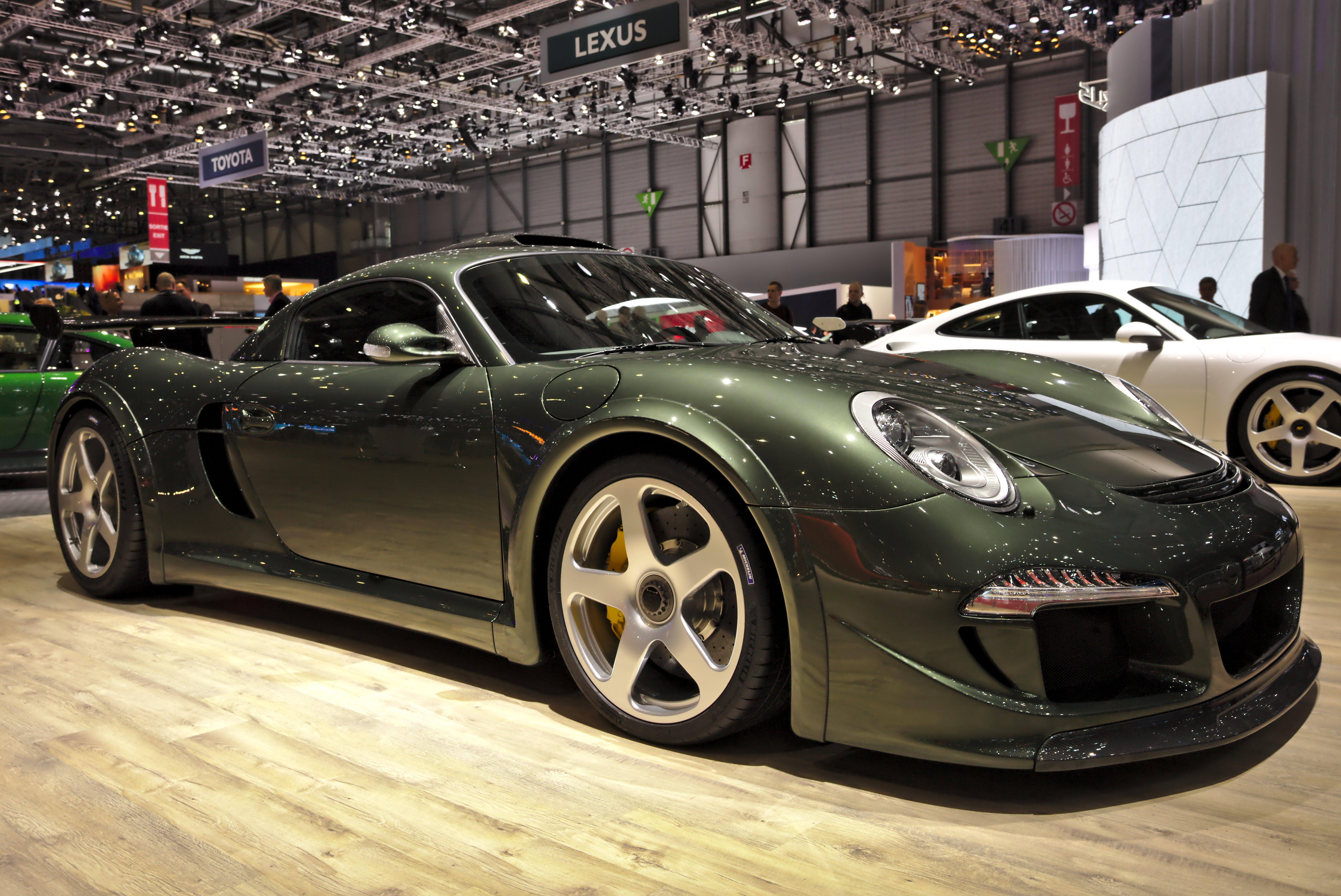 Ruf CTR3 at Geneva Motorshow 2018